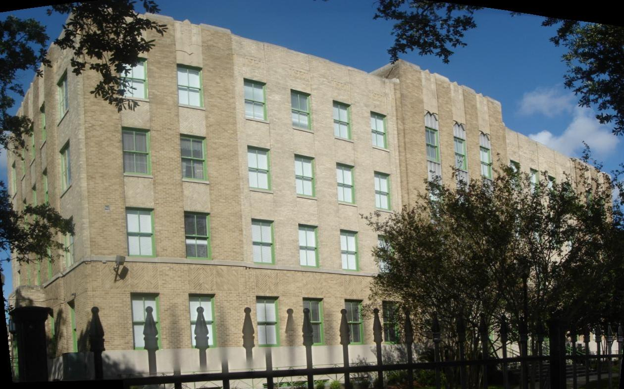 Flint Goodridge Hospital of Dillard University, Louisiana Avenue, New Orleans